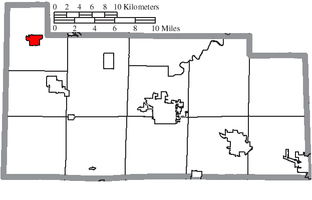 Map of the municipal and township boundaries of Sandusky County, Ohio, United States, as of the 2000 census, with the location of the village of Woodville highlighted. Township borders are shown only in unincorporated areas in order to differentiate incorporated and unincorporated areas more clearly.